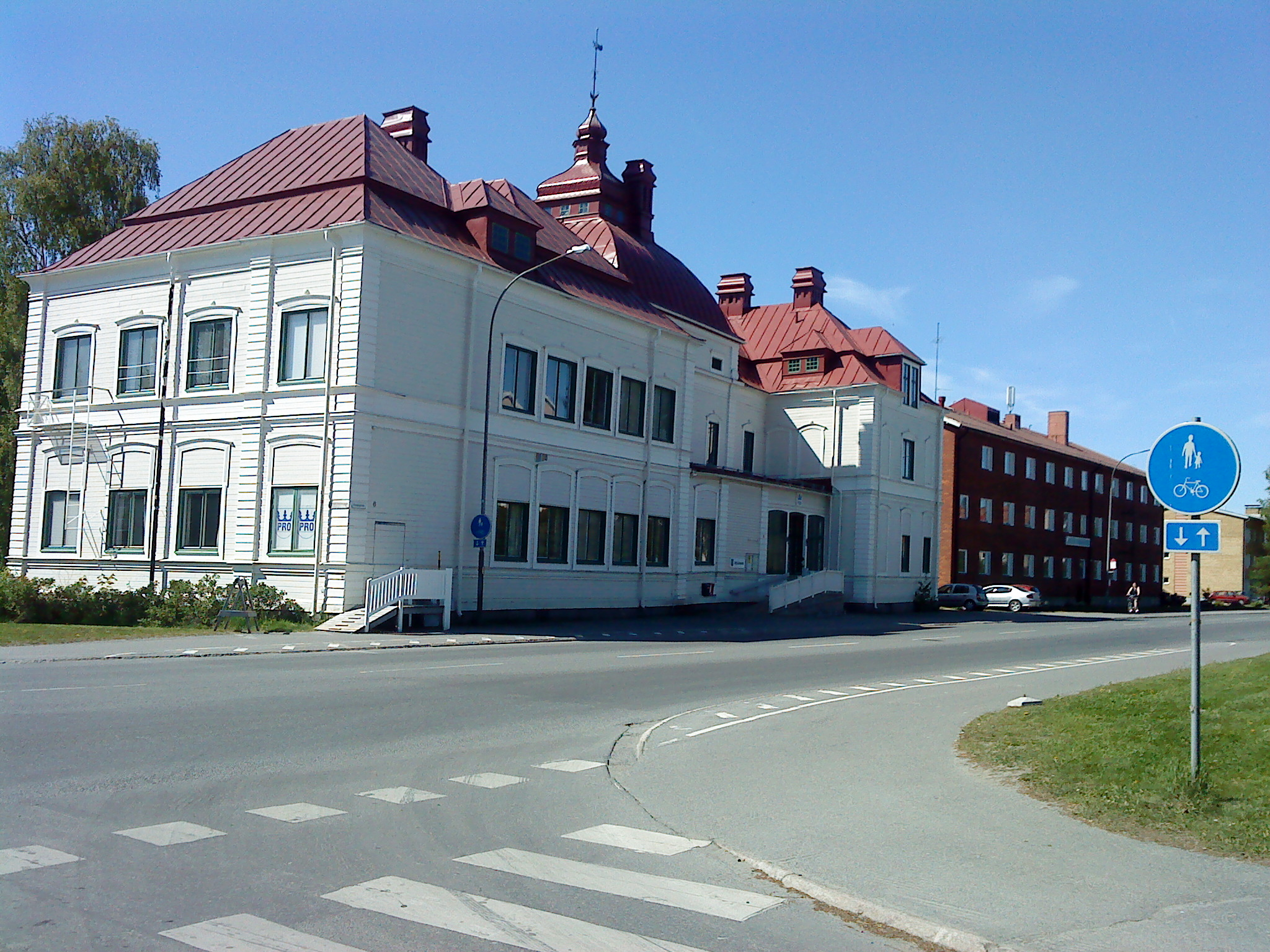 The Old Seminar in Skellefteå. Drawn 1902-07 by architect Viktor Åström.